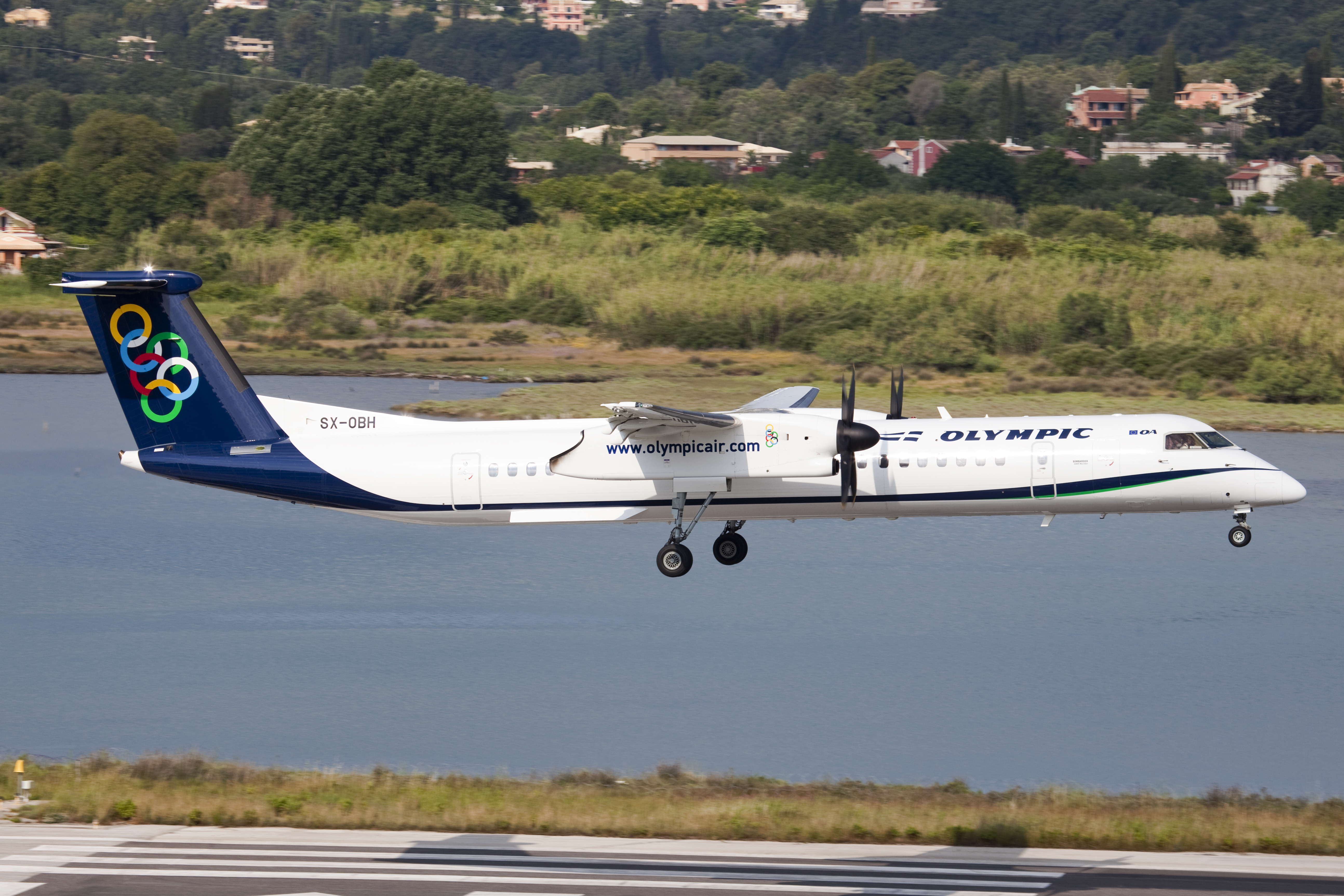 Corfu-Greece